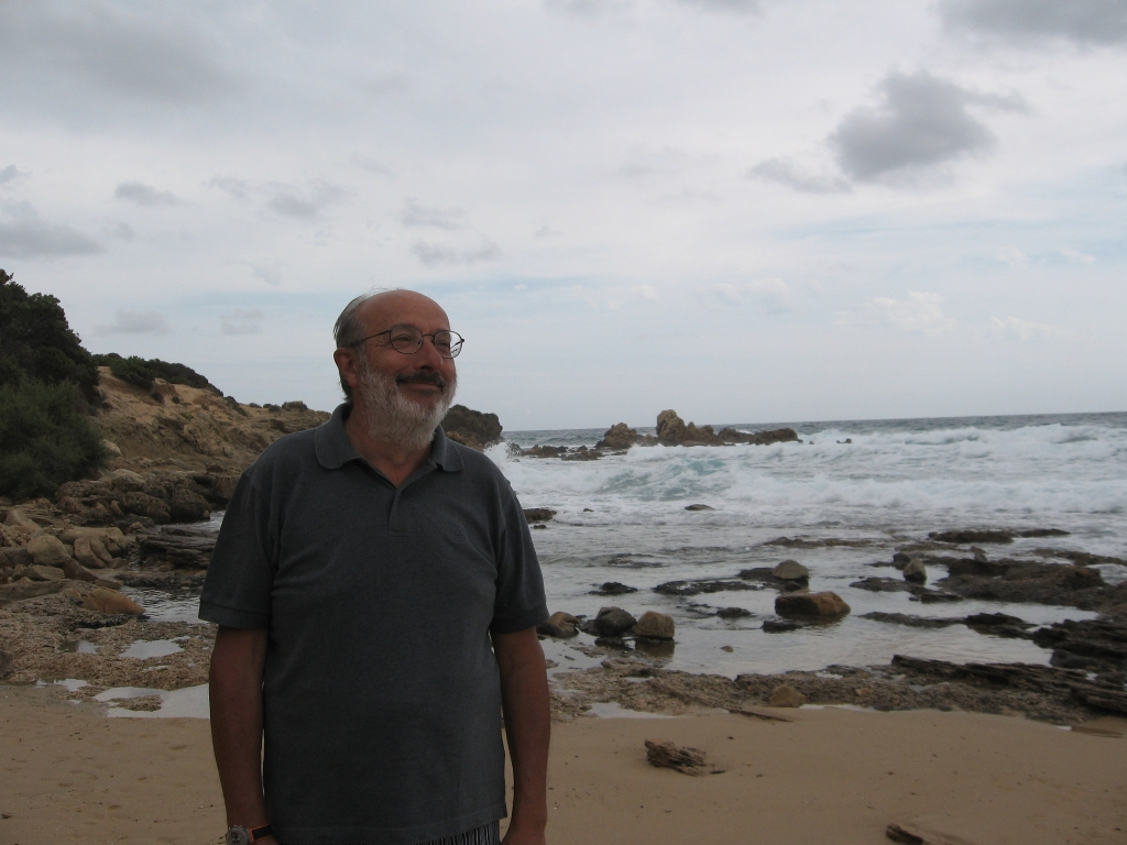 Guglielmo Forni Rosa, picture taken at sea